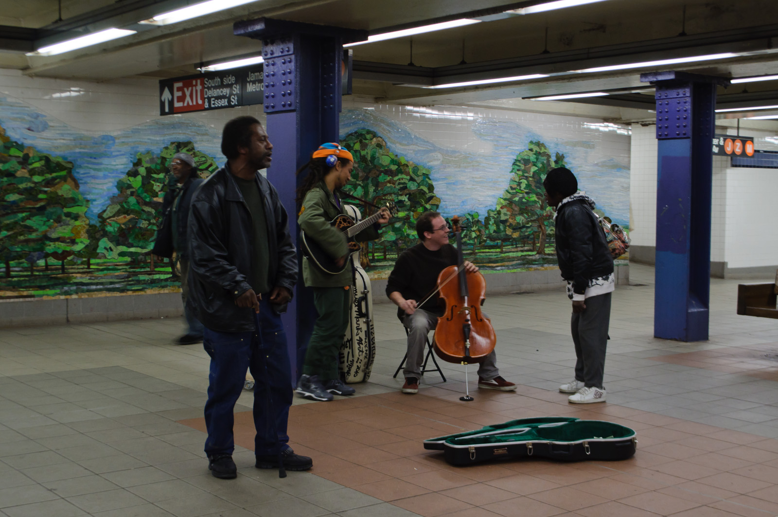 Seen performing at Delancey Street Station as I wait for the F train. (A pleasant surprise: a rerouted A train, which was what I really needed, would show up instead.) Musicians are allowed to legally set up and play in the subway, per Metropolitan Transportation Authority guidelines. They may accept tips, but may not use amplification; they may play on the platforms, but not in the trains. Musicians are tolerated and encouraged to make subway commutes more pleasant; the New York City subway, once notorious for muggings and other crimes, not to mention neglect and breakdowns, is very safe and pleasant today, though the age of the infrastructure cannot be hidden.